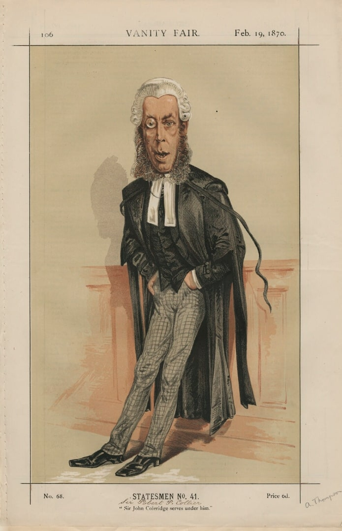 Carricature of Sir Robert Porrett Collier (1817-1886). Caption read "Sir John Coleridge serves under him".